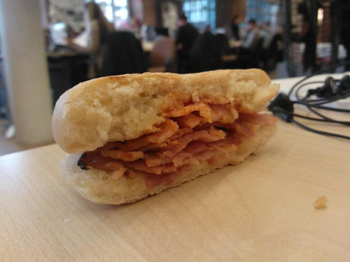 a leaving present from Robin Squire